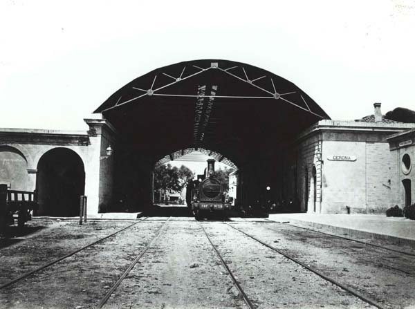 Anchient station of Girona